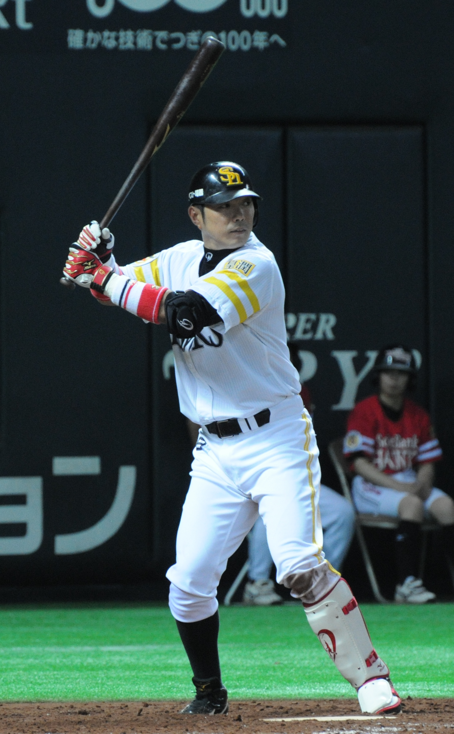 Hiroki Kokubo, infielder of the Fukuoka SoftBank Hawks, at Fukuoka Dome.